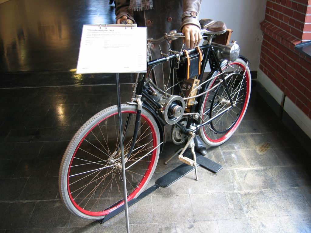 Scania motorcycle of model 1903. This picture can be found in gallery Scania AB